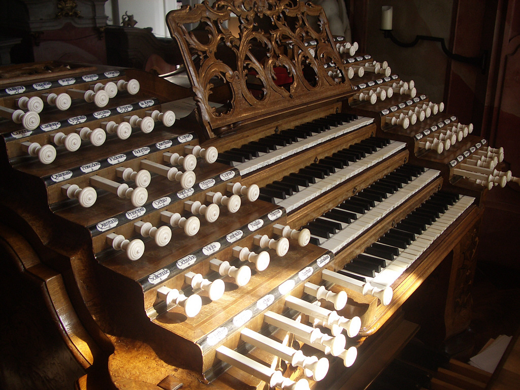 Weingarten, Germany: Basilika St. Martin, Organ by Joseph Gabler